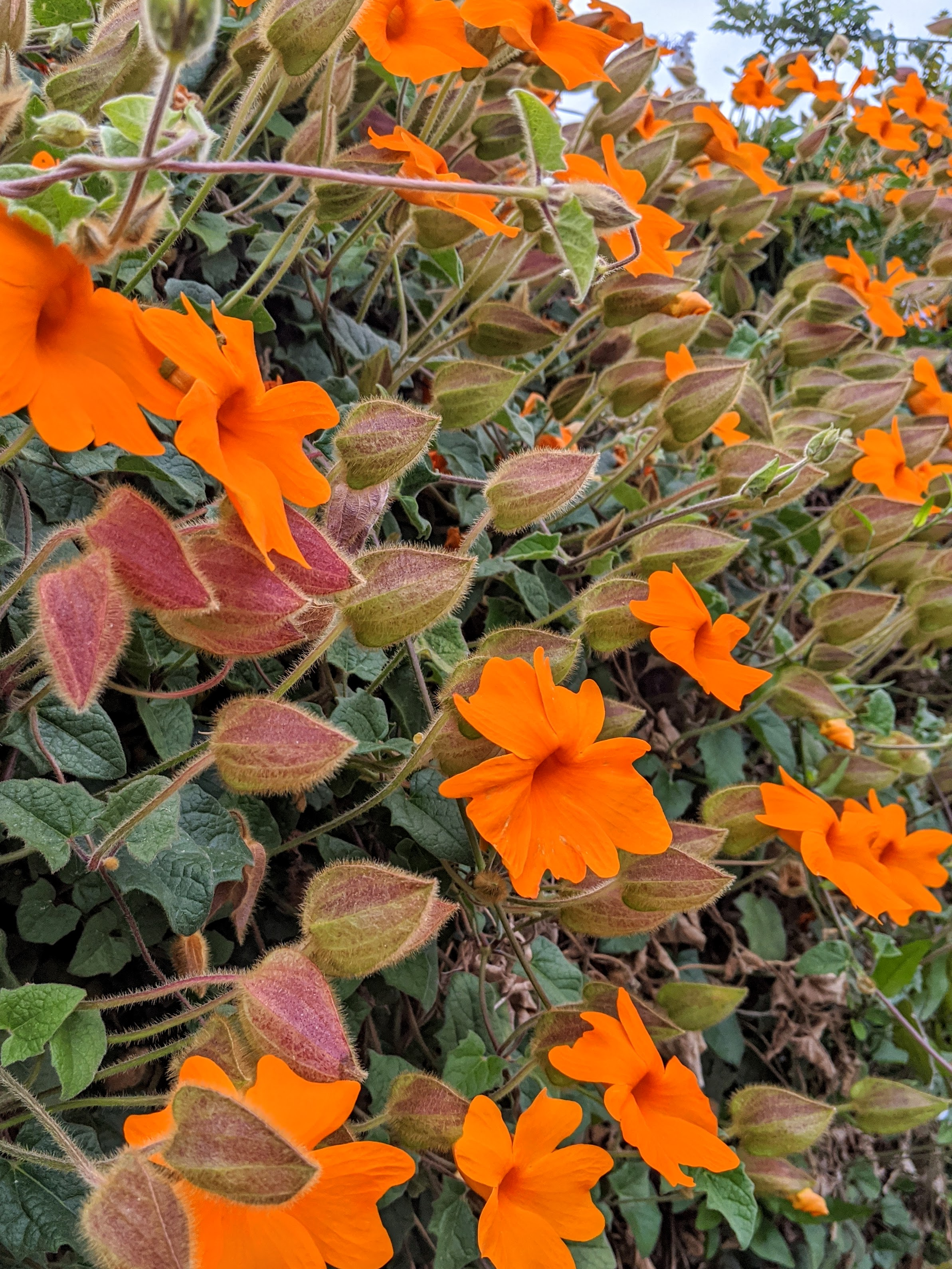 Orange clockvine, Thunbergia gregorii, in flower in May, Mountain View, California